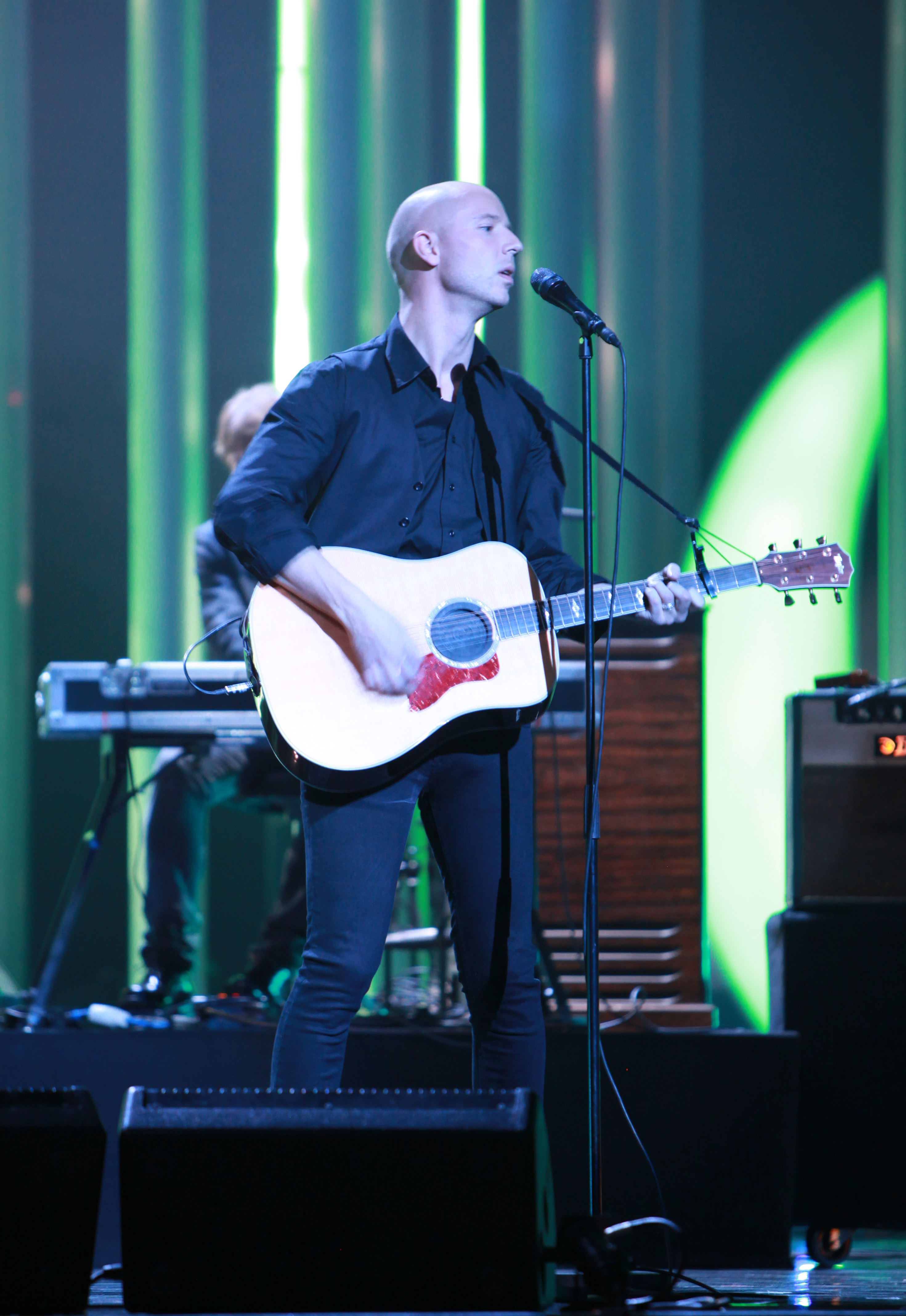 Sivert Høyem at The Nobel Peace Price Concert 2010